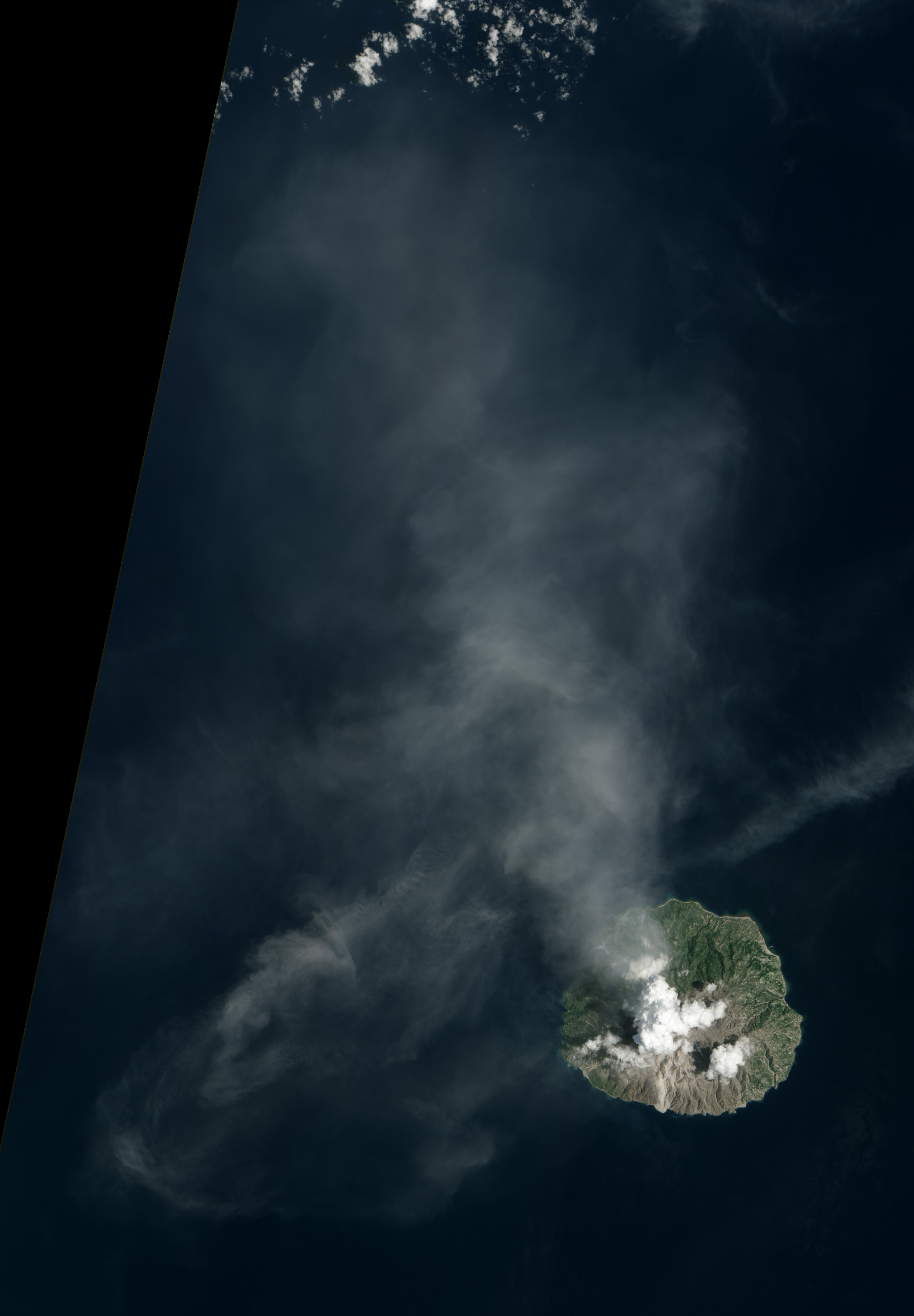 The image above was collected on February 12, 2013, by the Advanced Land Imager (ALI) on the Earth Observing-1 (EO-1) satellite. According to the Darwin Volcanic Ash Advisory Center (VAAC), Paluweh has experienced minor ash and gas emissions almost daily since the initial blast. The volcanic island erupted in 2 and 3 February 2013 and in this natural-color image, gray ash covers the southern slopes of the peak. A lighter gray swath running from the summit (shrouded by the plume) to the ocean traces the path of a volcanic landslide, likely the remnants of a pyroclastic flow. A new delta extends into the Flores Sea at the foot of the flow. To the northwest, airborne ash swirls around the island. Green vegetation appears relatively untouched, but ash has destroyed many of the island’s crops, according to The Jakarta Globe.